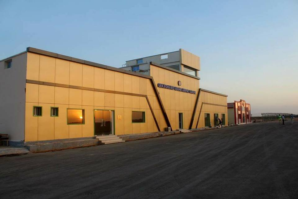 A view of the new Garowe Airport Terminal.